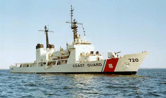 "378-ft. USCGC Sherman (WHEC-720)."